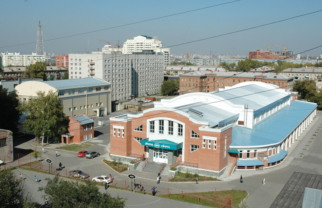 Дворец Спорта НГТУ